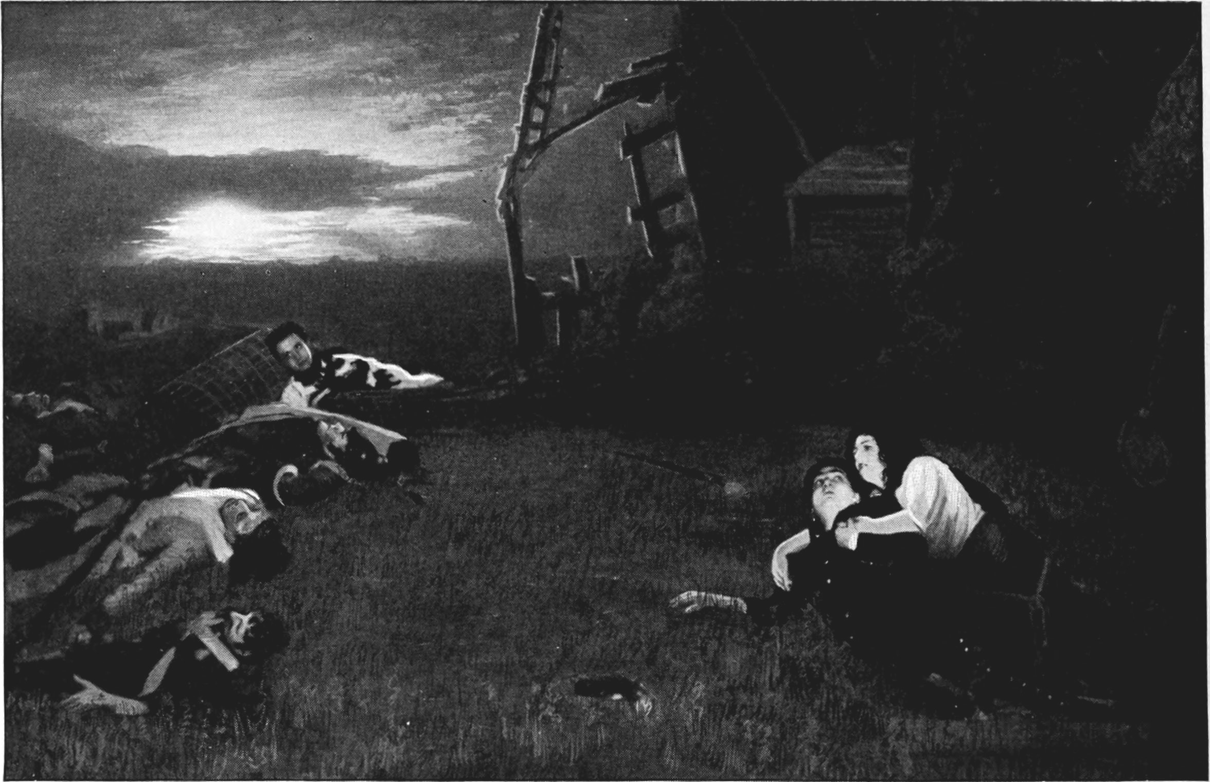 Franchetti's Germania, Act III - The battlefield of Leipzig - Caruso, Destinn and Amato Title: The Victrola book of the opera : stories of one hundred and twenty operas with seven-hundred illustrations and descriptions of twelve-hundred Victor opera records Year: 1917 (1910s) Authors: Victor Talking Machine Company Rous, Samuel Holland Subjects: Operas Publisher: Camden, N.J. : Victor Talking Machine Co. Text Appearing Before Image: 173 Text Appearing After Image: LANDE THE BATTLEFIELD OF LEIPZIG ACT III ( CARUSO, DESTINN AND AMATO) GERMANIA (Jaer-mah -nee-ah) A Lyric Drama in a Prologue, Two Scenes and EpilogueText by Luigi Mica. Music by Alberto Franchetti. First production at the Teatro DalVerme, Milan, in 1902. The opera was given thirty performances at La Scala in twoseasons, and has since been heard in Spain, Portugal, Russia and South America. FirstAmerican production, New York, January 22, 1910, with Caruso, Destinn and Amato. Cast of Characters Giovanni Filippo Palm Bass FEDERICO LCEWE) f Tenor CARLO WORMS ^Students (Baritone CRISOGONO J (Baritone RICKE Soprano JANE, her sister Mezzo-Soprano LENE ARMUTH, an aged beggar-woman Mezzo-Soprano JEBBEL, her nephew Soprano STAPPS, Protestant Priest Bass LUIGI ADOLFO GUGLIELMO LUTZOW Bass CARLO TEODORO KORNER Tenor SIGNORA HEDVIGE Mezzo-Soprano PETERS, a herdsman Bass Chief of German Police Bass Historical Personages, Students, Soldiers, Police Officers, Members and Associates of the Tugendbund